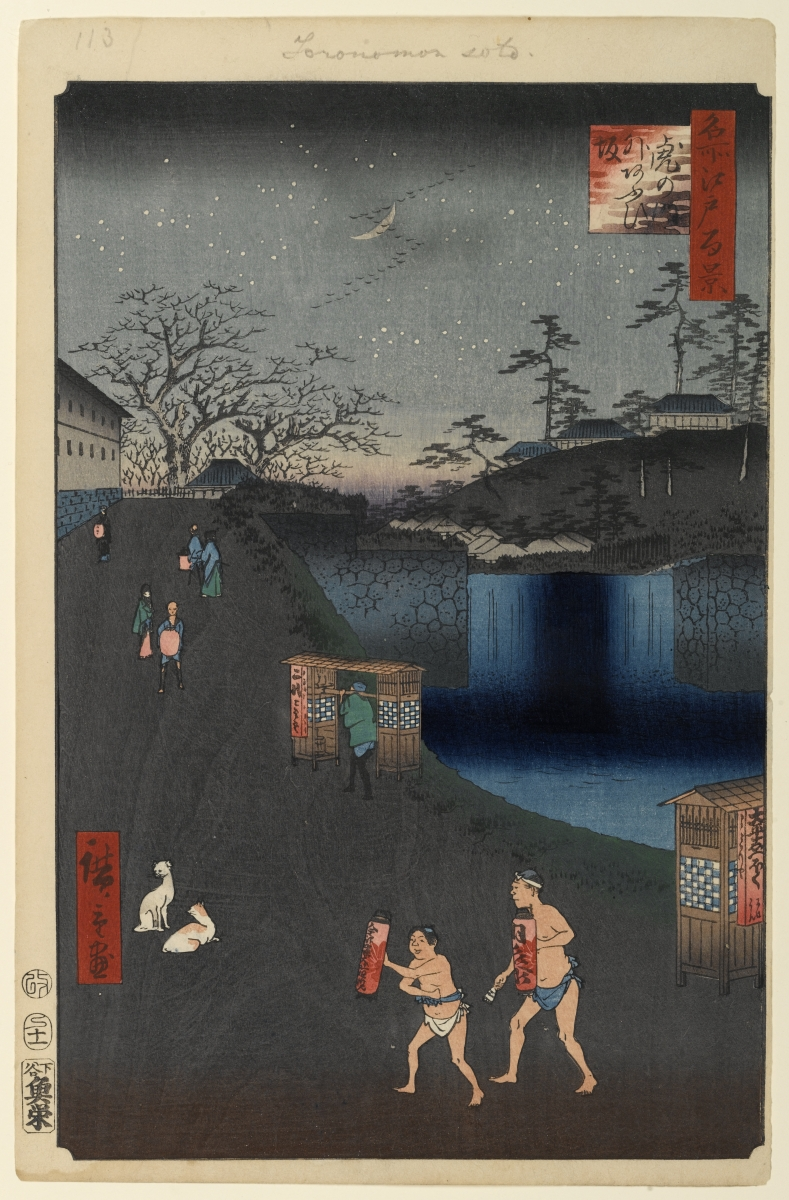 Part of the series One Hundred Famous Views of Edo, no. 113, part 4: Winter.